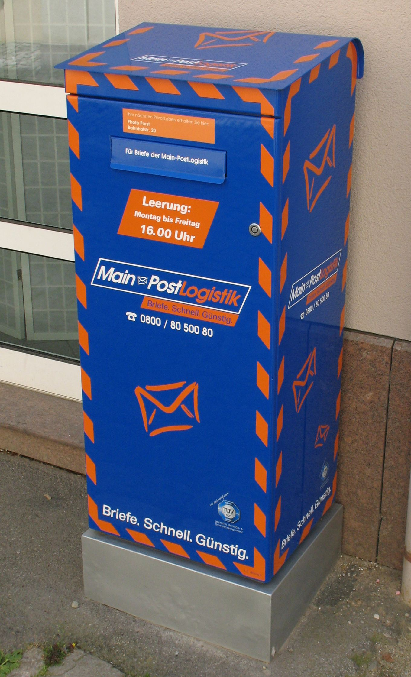 Mailbox in Hammelburg in Bavaria, Germany